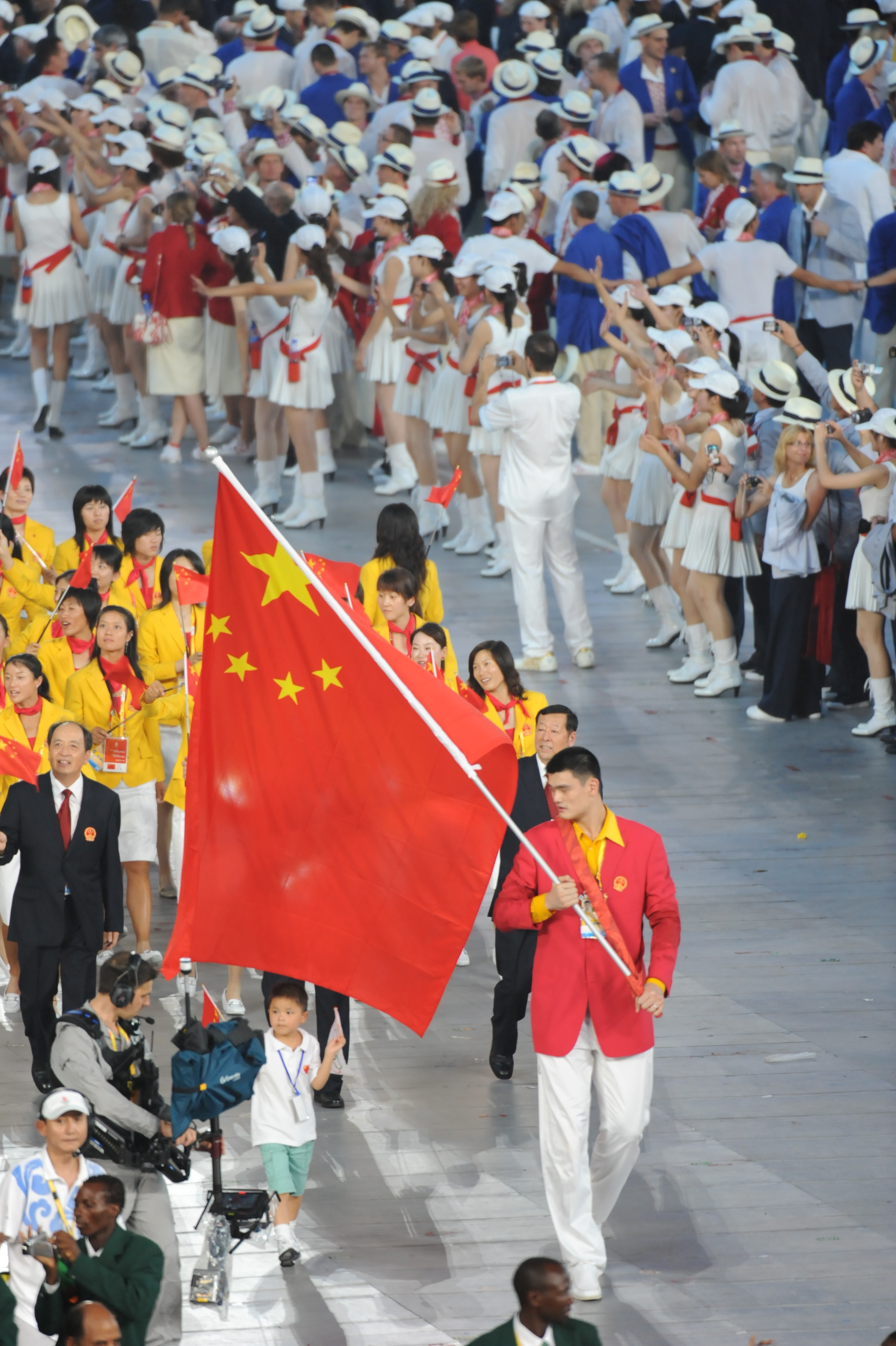 Yao Ming, member of the Chinese Olympic basketball team, carrying the Chinese flag and leading the Chinese athletes at the 2008 Summer Olympic Games in Beijing.